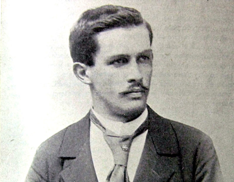 Jovan Skerlić (1877-1914)